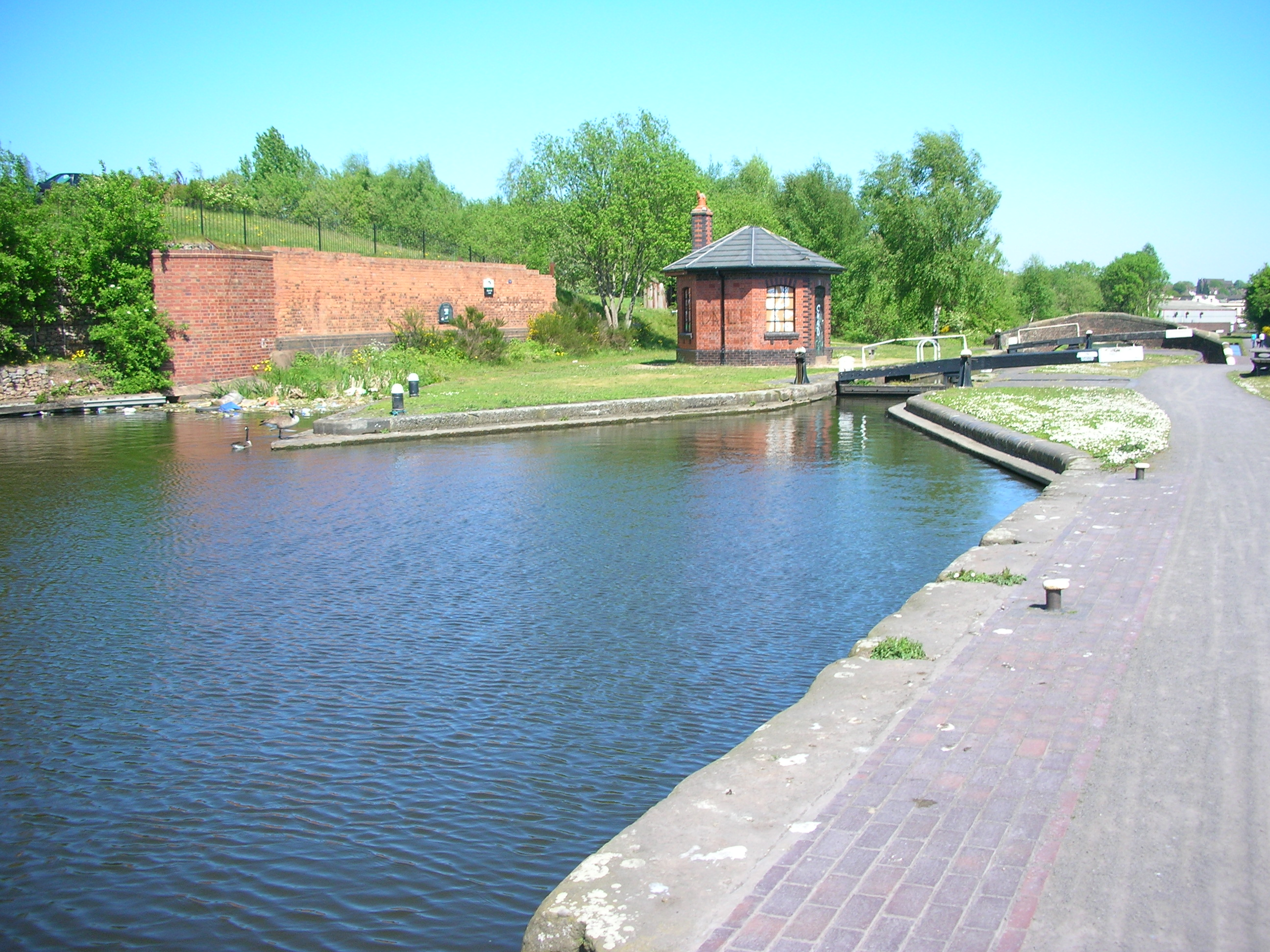 A typical octagonal toll house on the Birmingham Old Main Line Canal at Smethwick Top Lock, near the Engine Arm Aqueduct, Smethwick, England. However this is a modern reconstruction in octagonal BCN style. Photographs in (Birmingham's Canals, Ray Shill, 1999, 2002, ISBN 0-7509-2077-7) show a rectangular pitched-roof building, and a plaque at the site describes the toll house as a reconstruction. There was a second, parallel set of three locks introduced by John Smeaton's reworking of the Old Main Line, when the Smethwick Summit was lowered by 18 feet. The entrance to the other set of locks was where the geese and flotsam are visible. Now dismantled and filled in. Photographed by me 1 May 2007. Oosoom